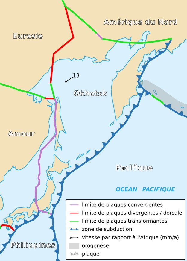 Map of the Okhotsk Plate